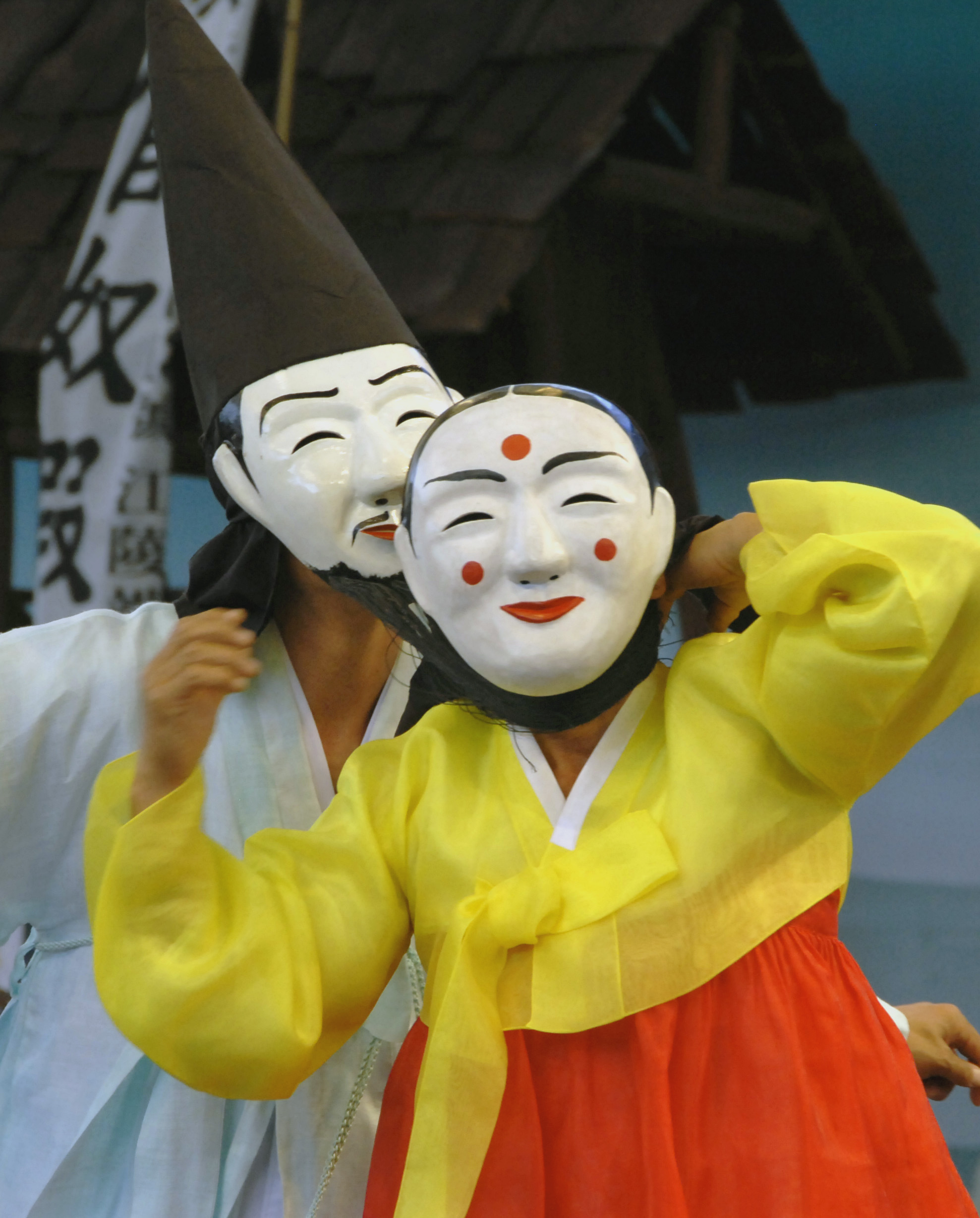 The 13th Andong International Mask Dance Festival will be held from September 24 to October 3, bringing together mask dancers and entertainers from all over Korea and around the world.